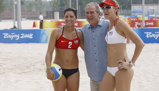 President George W. Bush stands with the U.S. Women's Beach Volleyball team of Misty May-Treanor, left, and Kerri Walsh at the Chaoyang Park practice courts Saturday, Aug. 9, 2008, before their matches at the 2008 Summer Olympics in Beijing.